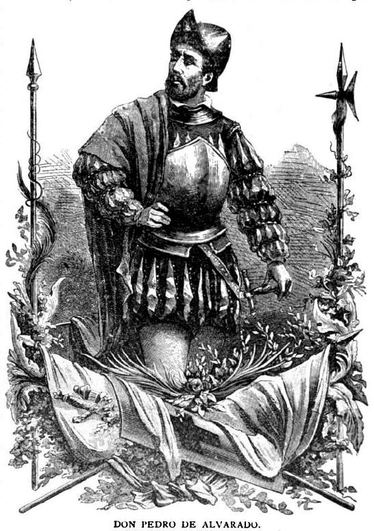 Conquistador Pedro de Alvarado. Sketch taken from Geografia de America Central first published in 1896. Published by Pacific Press in 1896 Oakland California